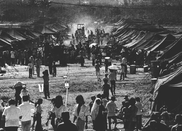 View of the refugee camp at Orote Point, Guam (USA), following the Vietnam War, circa in 1975.